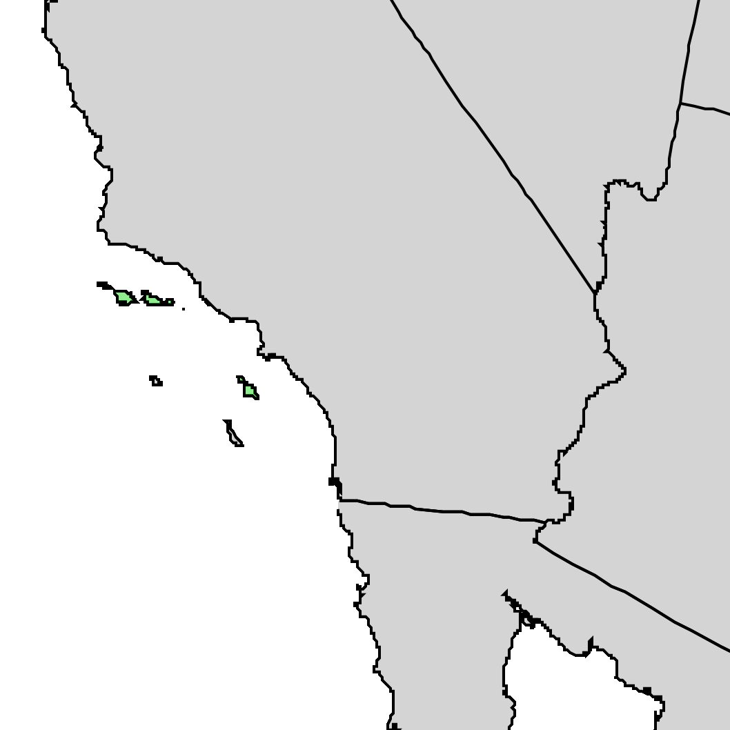 Natural distribution map for Quercus macdonaldii in the California Channel Islands.